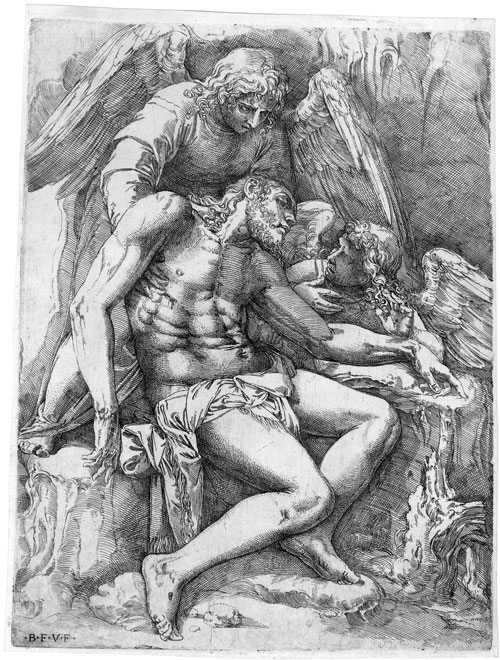 Estimated price (2006) = € 1.500 (US$ 1.950)